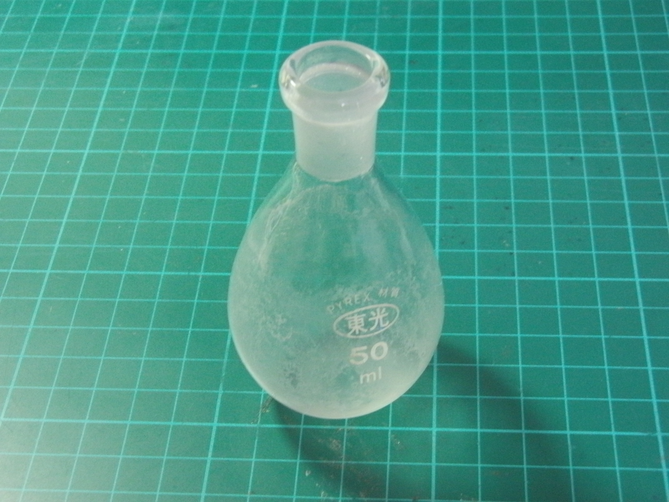 Round bottom flask